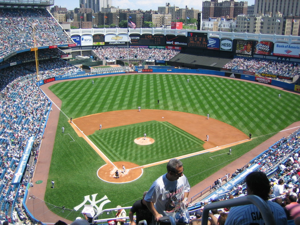 Tier 3, Row P, Seat 22